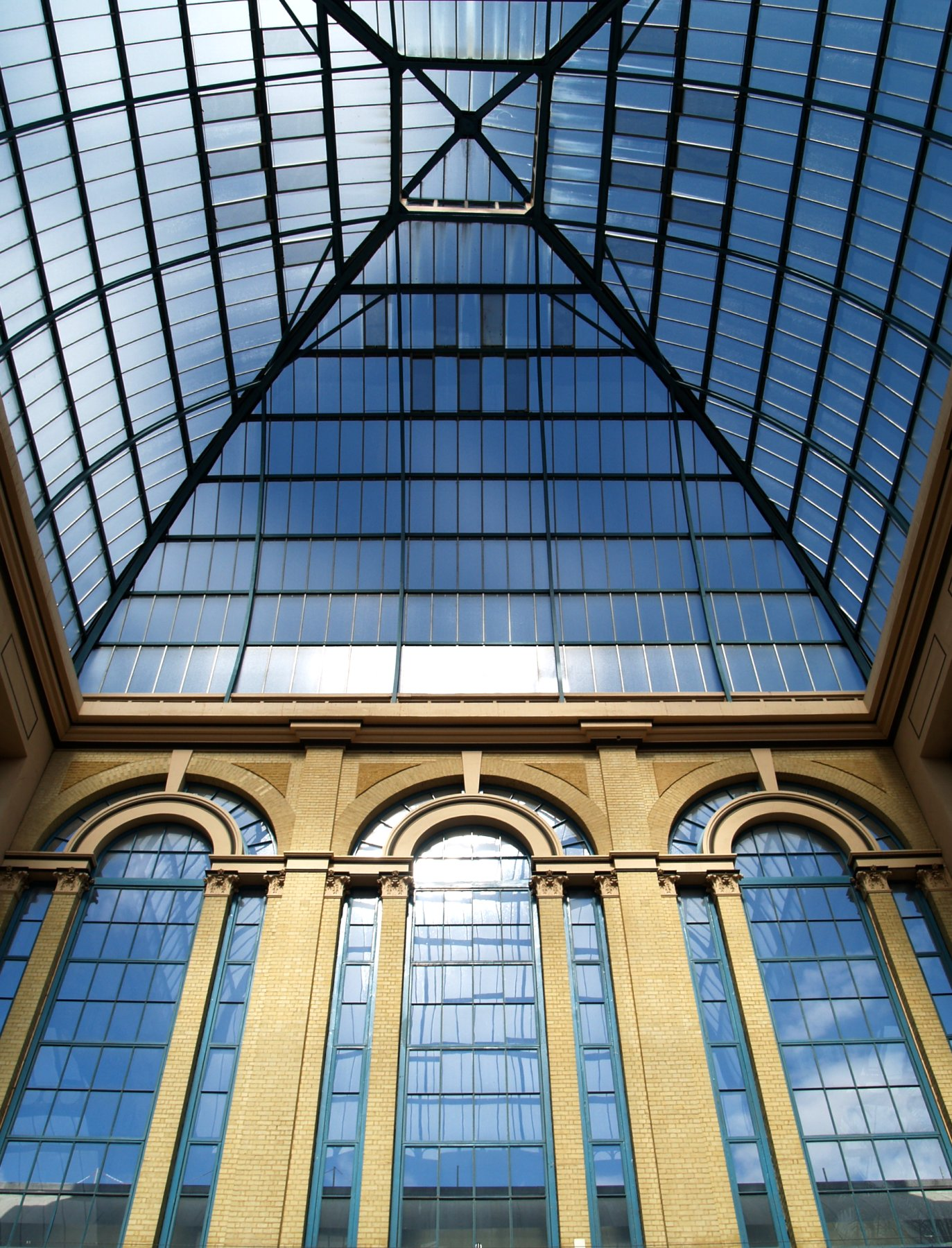 Roof Construction of the Alexandra Palace in London